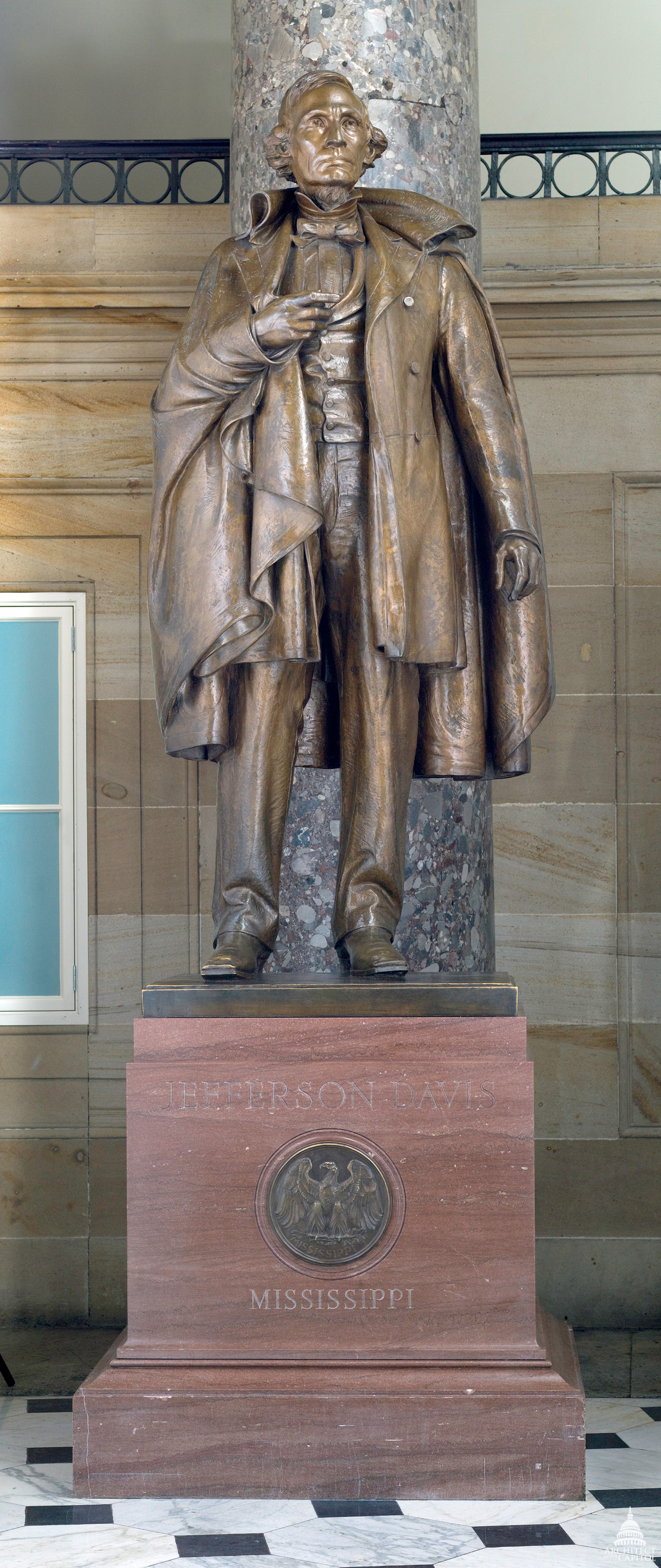 Jefferson Davis (1808-1889) Mississippi Bronze by Augustus Lukeman Given in 1931 National Statuary Hall U.S. Capitol For more information on this statue that is part of the National Statuary Hall Collection in the U.S. Capitol visit: This official Architect of the Capitol photograph is being made available for educational, scholarly, news or personal purposes (not advertising or any other commercial use). When any of these images is used the photographic credit line should read “Architect of the Capitol.” These images may not be used in any way that would imply endorsement by the Architect of the Capitol or the United States Congress of a product, service or point of view. For more information visit